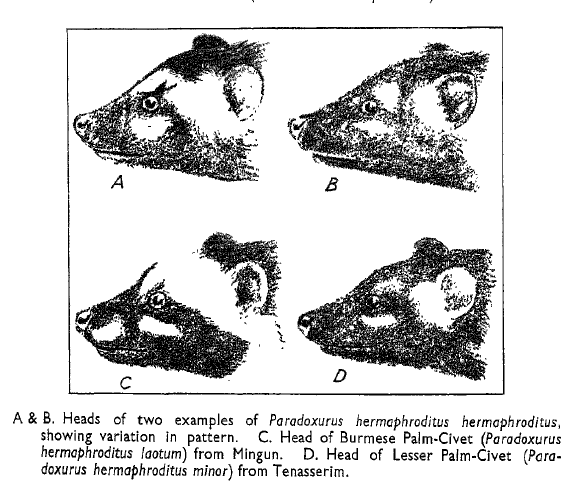 Heads of various Asian palm civet subspecies